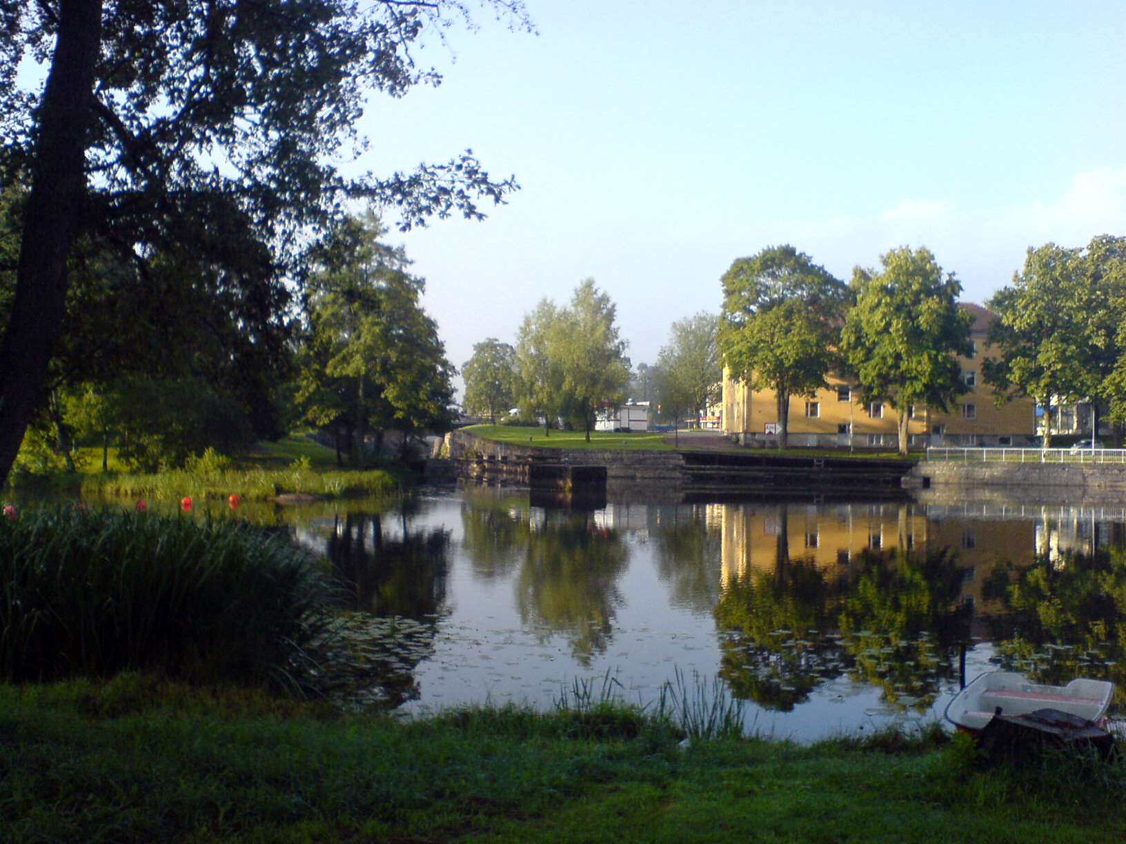 A photo of Säffle taken from Tingvalla Strand.